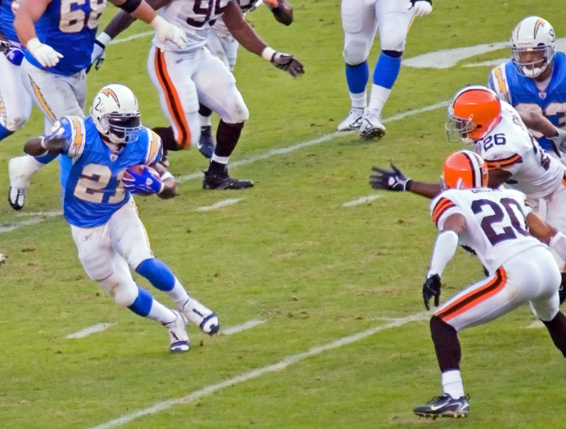 LaDainian Tomlinson of San Diego Chargers vs Cleveland Browns